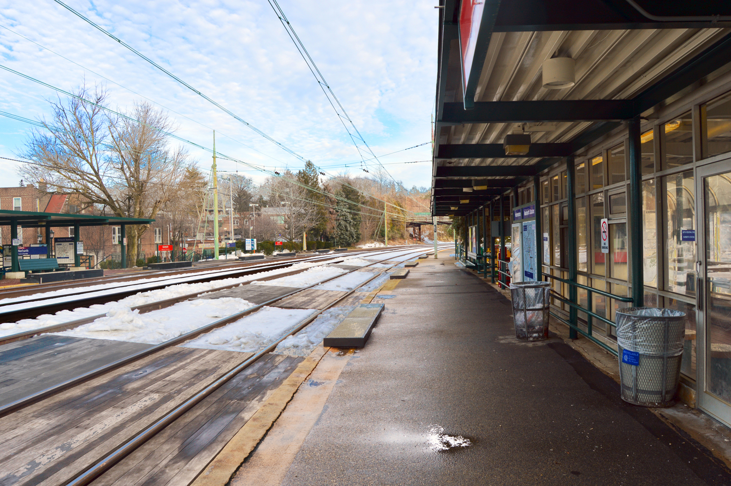 Narberth, PA Southeast Pennsylvania Transportation Authority (SEPTA) commuter rail station